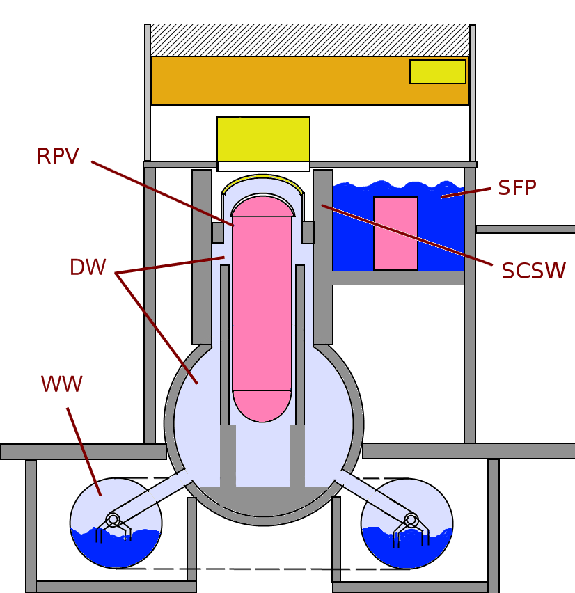 Rough sketch of a typical Boiling water reactor (BWR) Mark I Concrete Containment with Steel Torus including downcomers, as used in the BWR/1, BWR/2, BWR/3 and some BWR/4 model reactors. DW = Drywell WW = Wetwell SFP = Spent Fuel Pool RPV = Reactor Pressure Vessel SCSW = Secondary Concrete Shield Wall